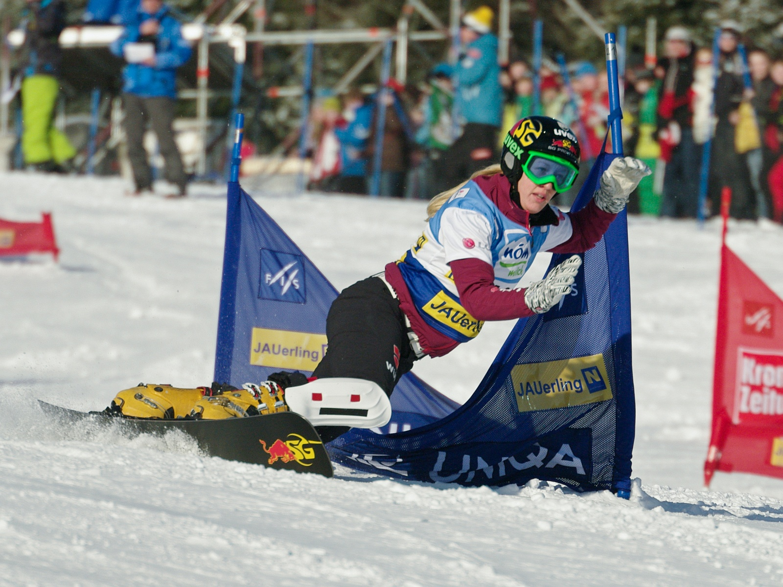 German snowboarder Anke Karstens in the qualification round of the World Cup Parallel Slalom at the Jauerling in Austria on 13 January 2012.